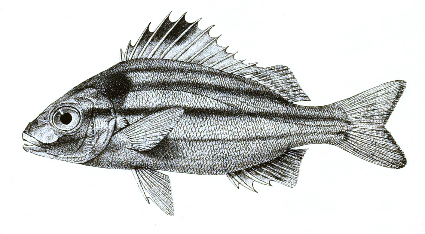 Pelates quadrilineatus syn. Therapon quadrilineatus The species names / identity need verification. The original plates showed the fishes facing right and have have been flipped here. Therapon quadrilineatus